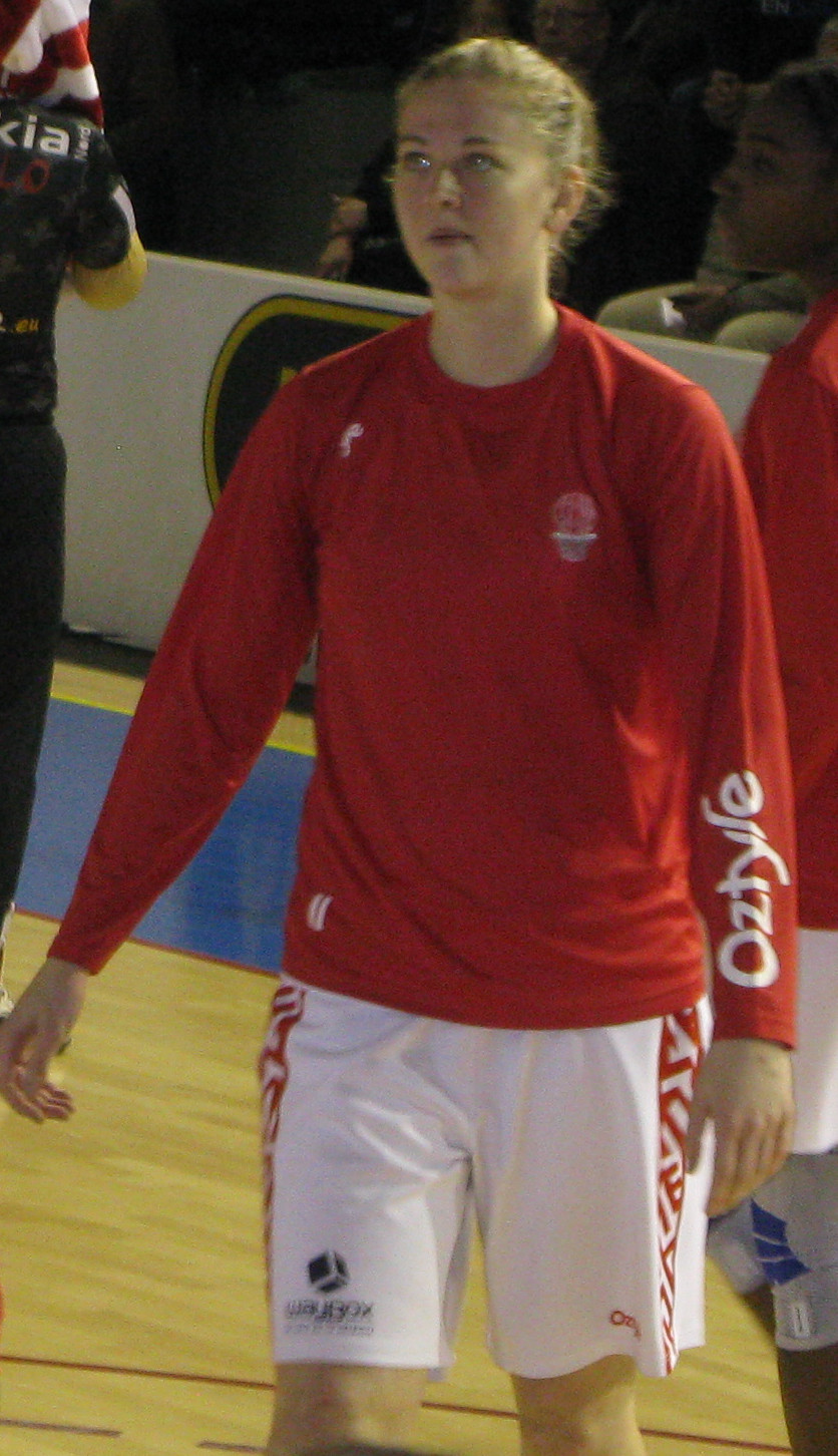 Emma Meesseman in Le Palacium, match ESBVA vs Saint-Amand Hainaut, French Women’s Basketball League competition.